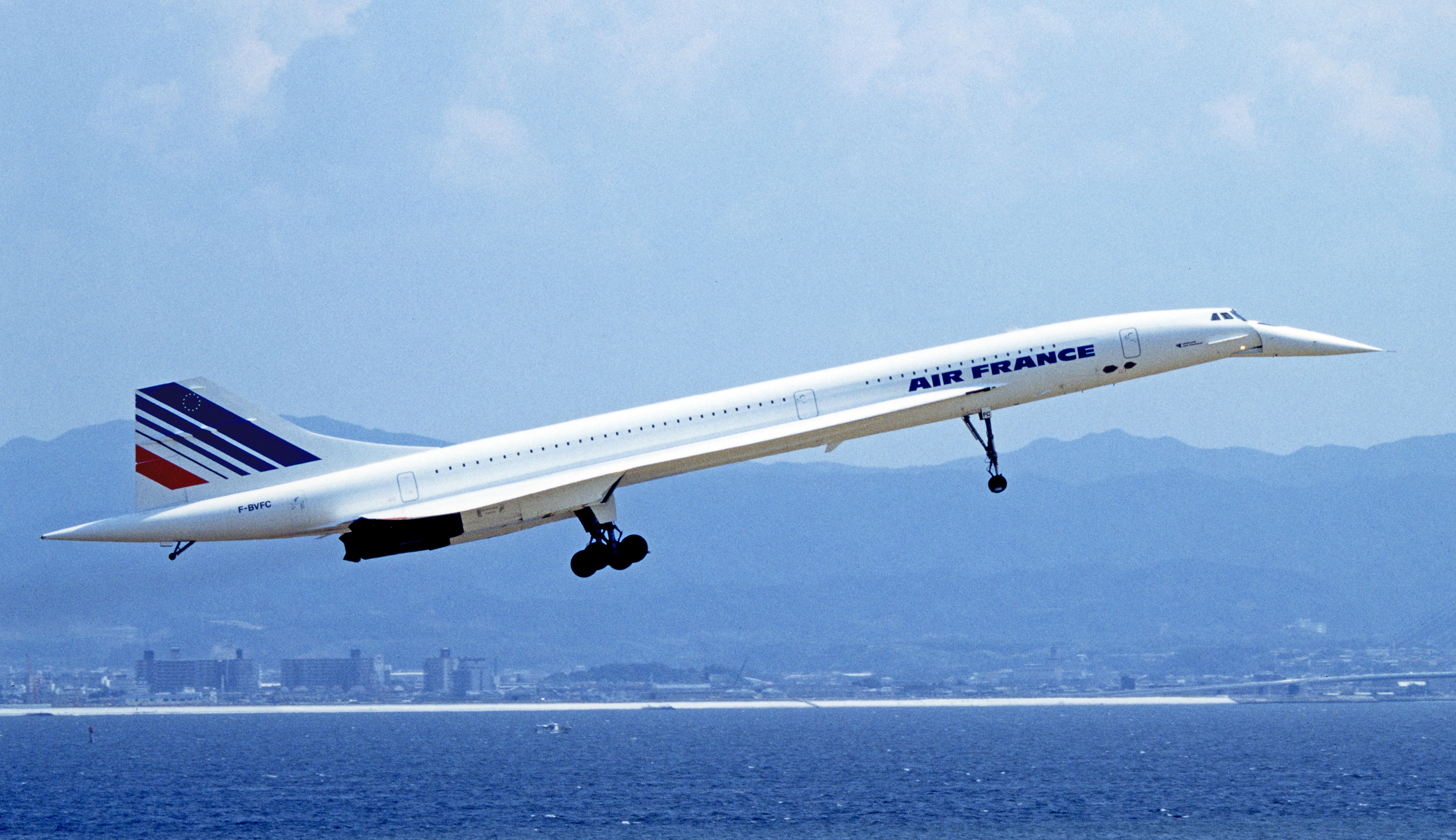 Concorde landing at Kansai International Airport in 1994.